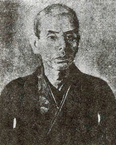 Kuwabara Jitsuzo（桑原隲蔵）was a historian of Japan in Meiji period.